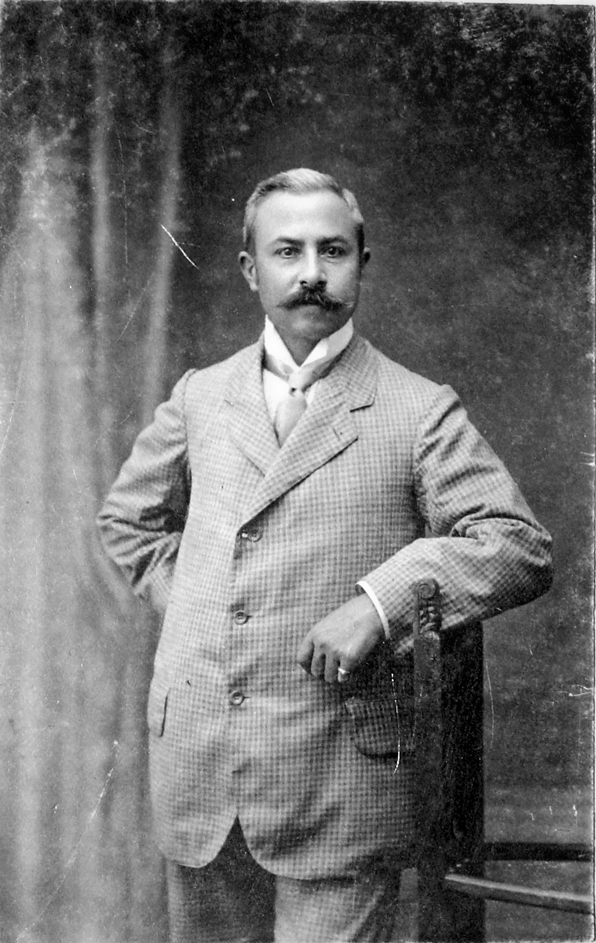 Portrait of Ecuadorian photographer José Domingo Laso made in Paris around 1908, during his stay as a fellow.